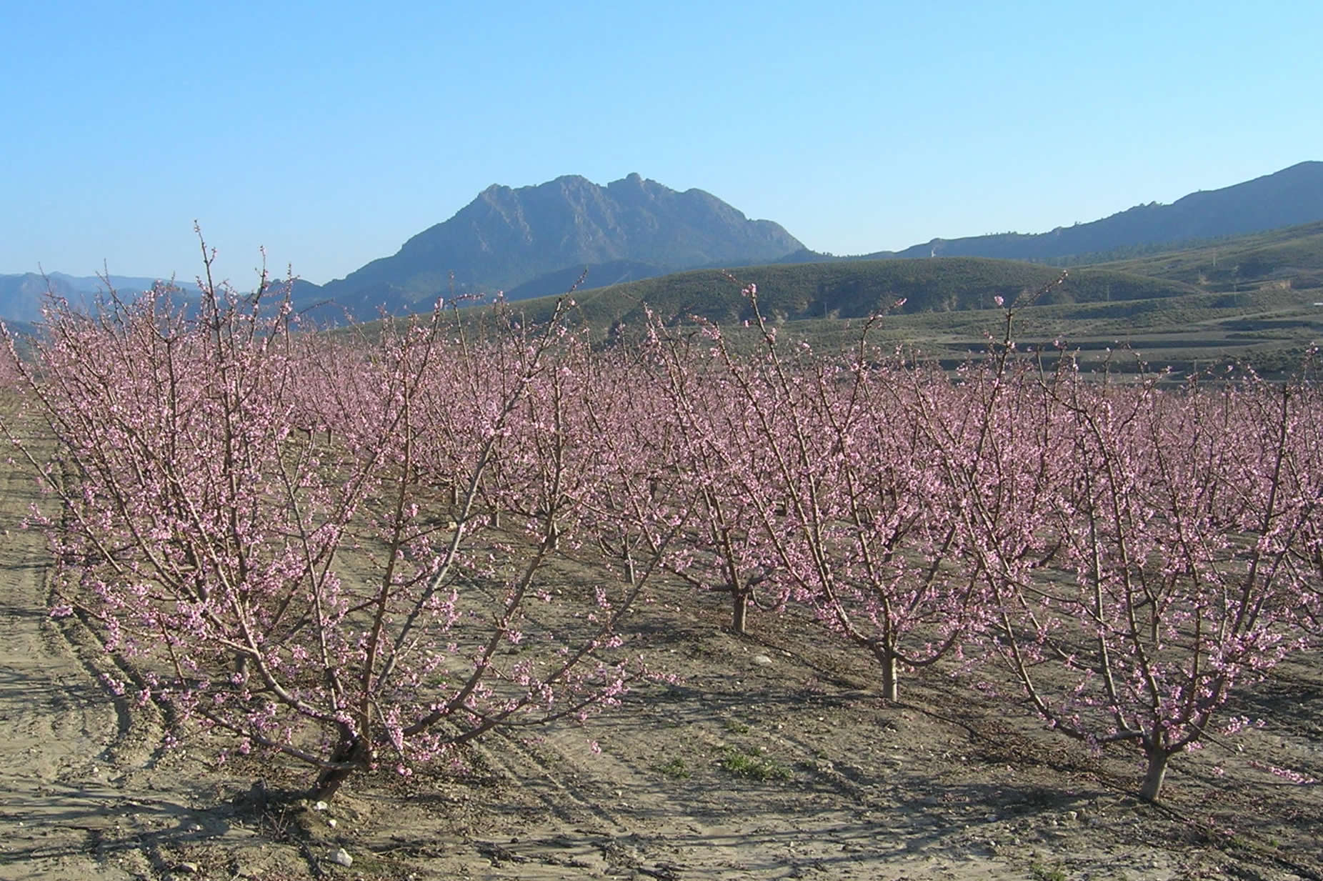 Cieza, Murcia, Spain. Mount Almorchón and peach trees.